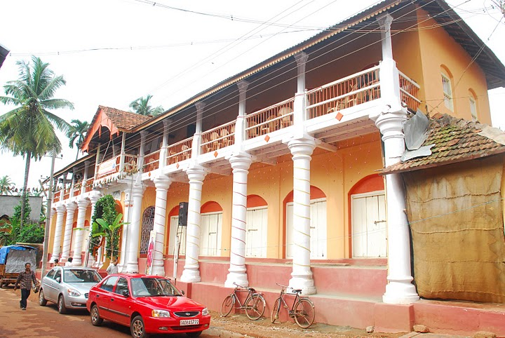 Shri Gaudapadacharya Mutt Branch at Gokarna, Karntaka.